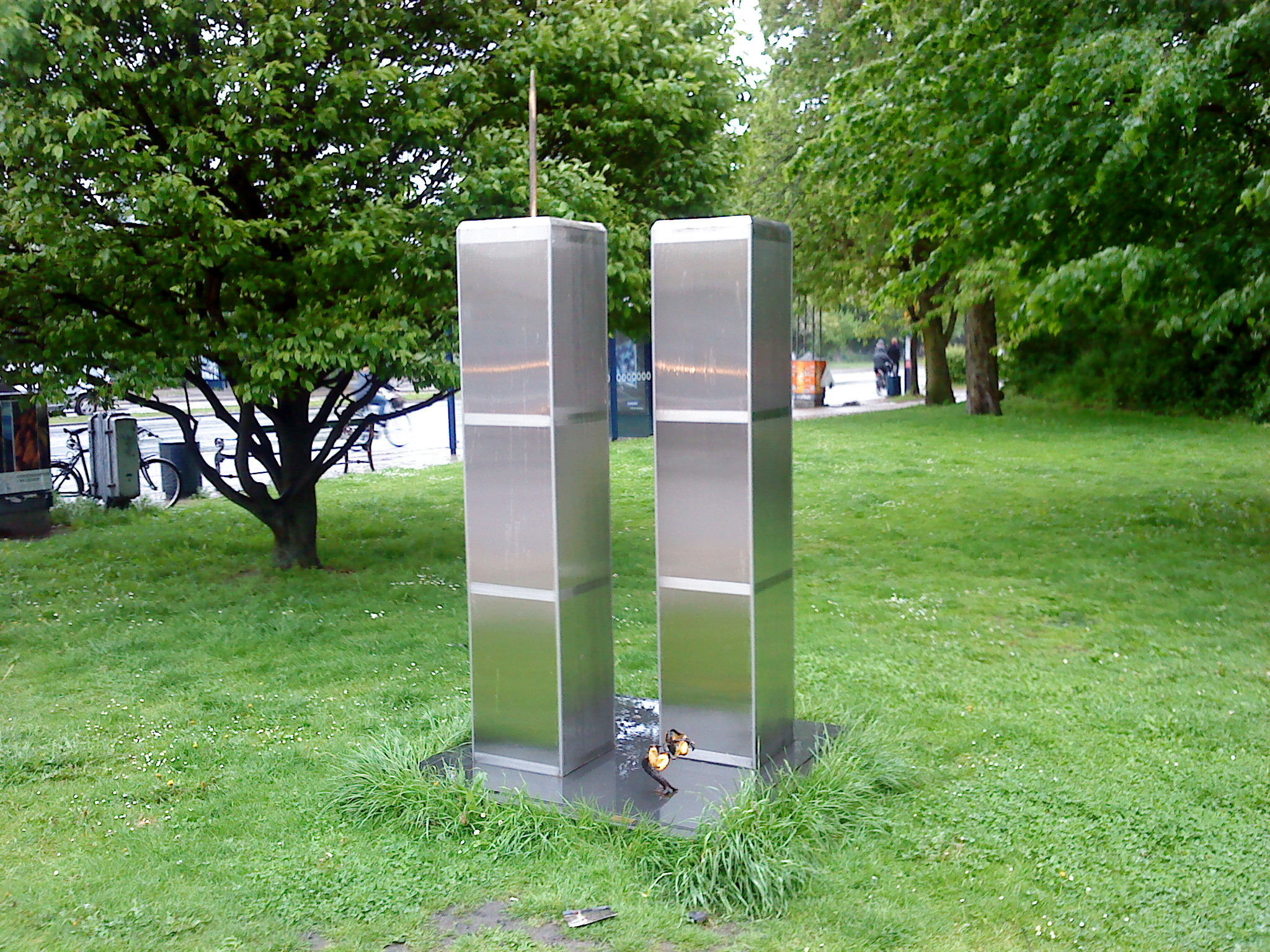 Monument, situated in Copenhagen, commemorating the September 11, 2001 attacks on The World Trade Center in New York.